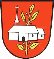 Coat of Arms of Ottenstein